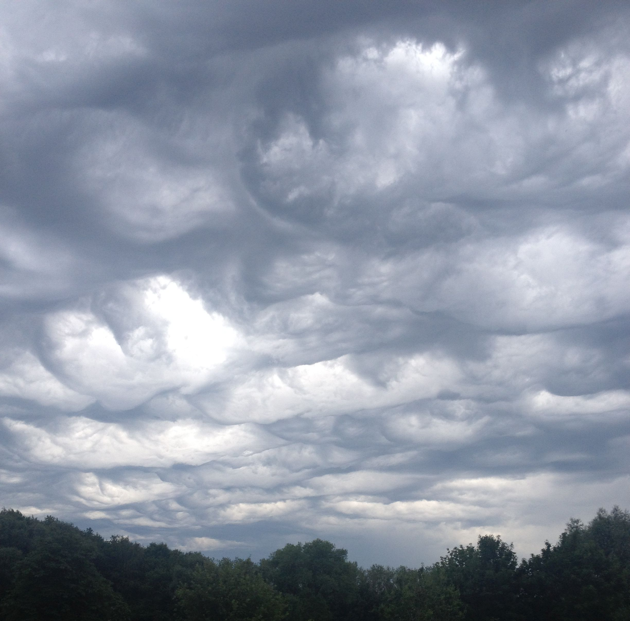 Clouds Bonheiden Belgium jun 2014